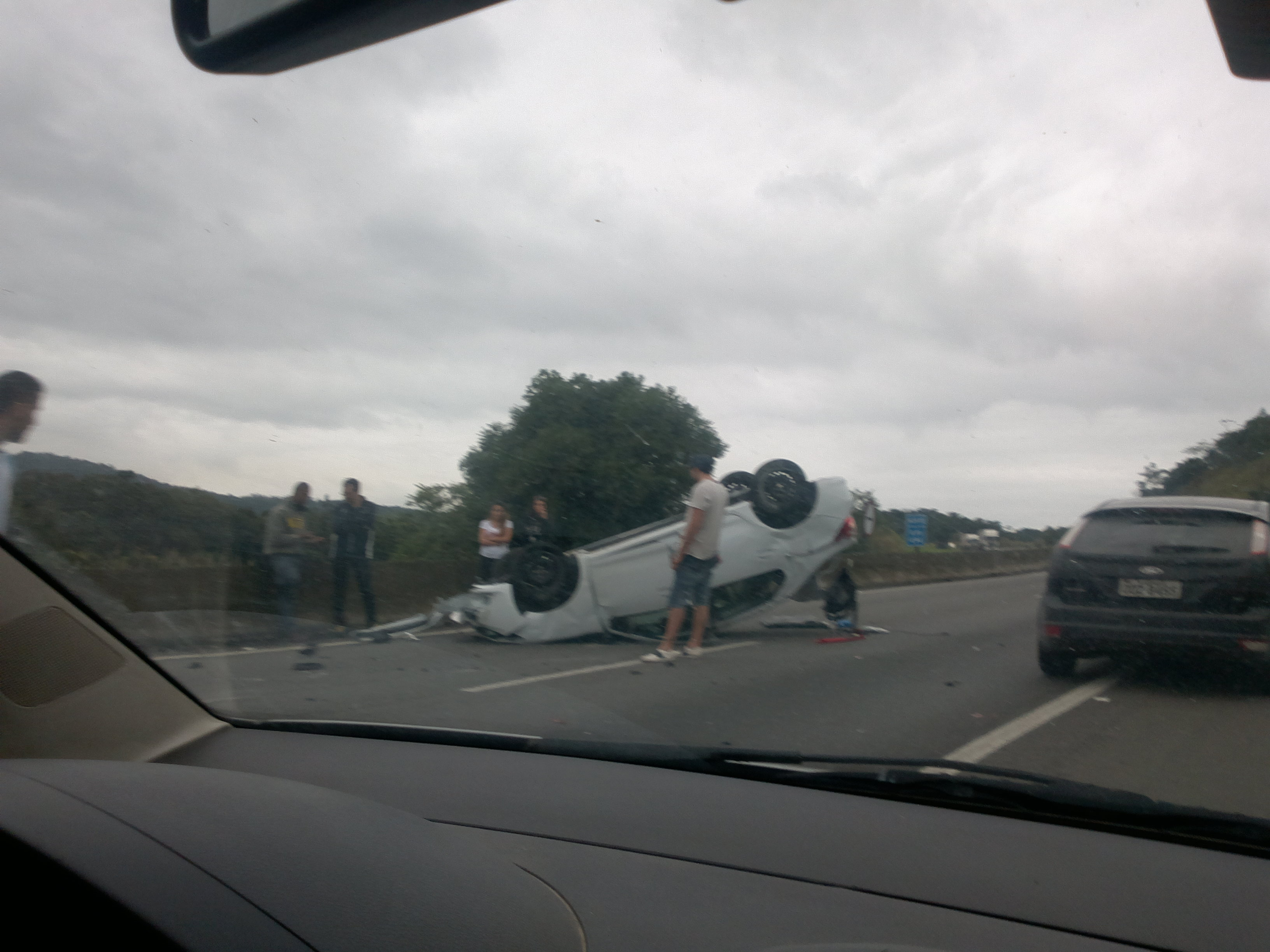 Car accident at Régis Bittencout Highway.